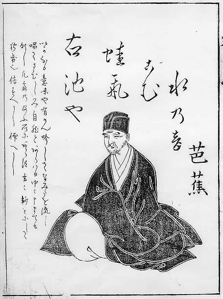 Matsuo Bashō